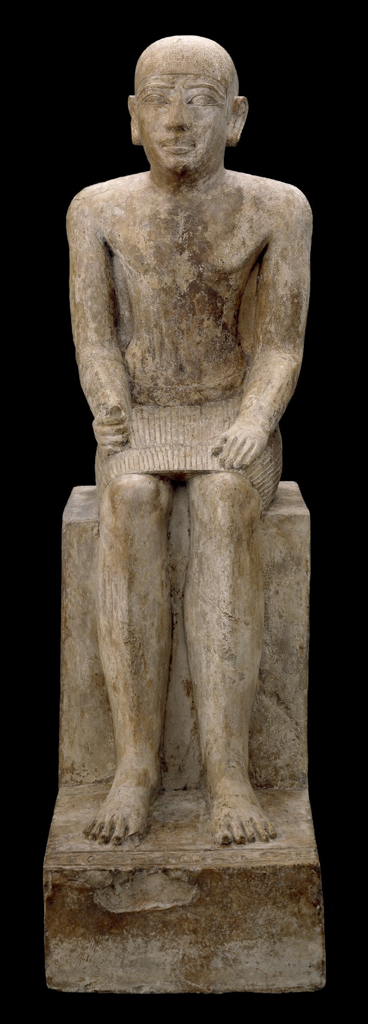 Limestone Statue of the Steward Mery, Ancient Egypt 11th Dynasty, First Intermediate Period. British Museum EA37895